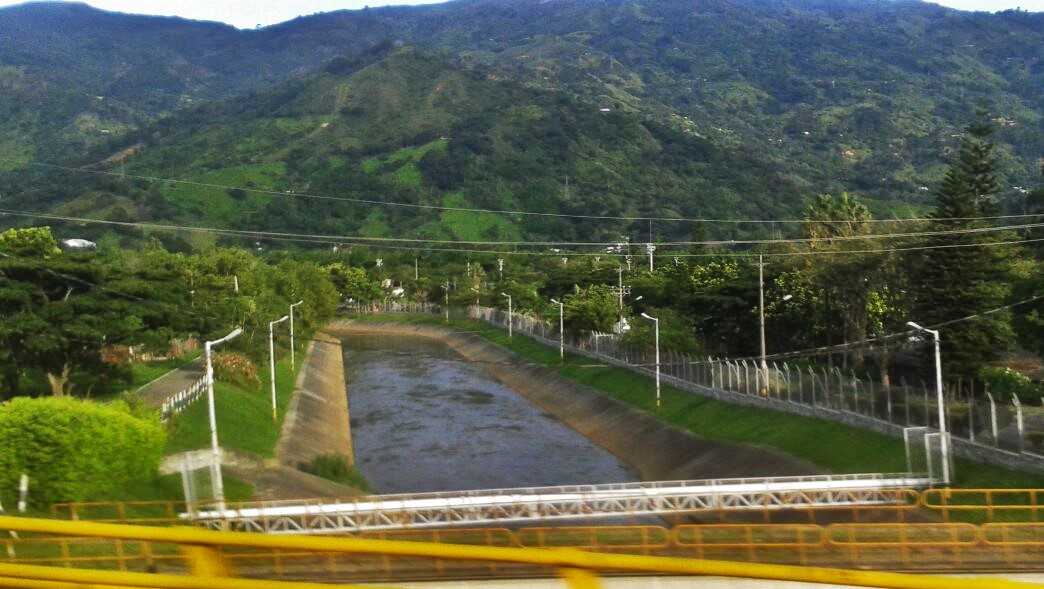 Canal de La Tasajera en Barbosa, Antioquia, lugar por donde corre parte de las aguas del río Grande